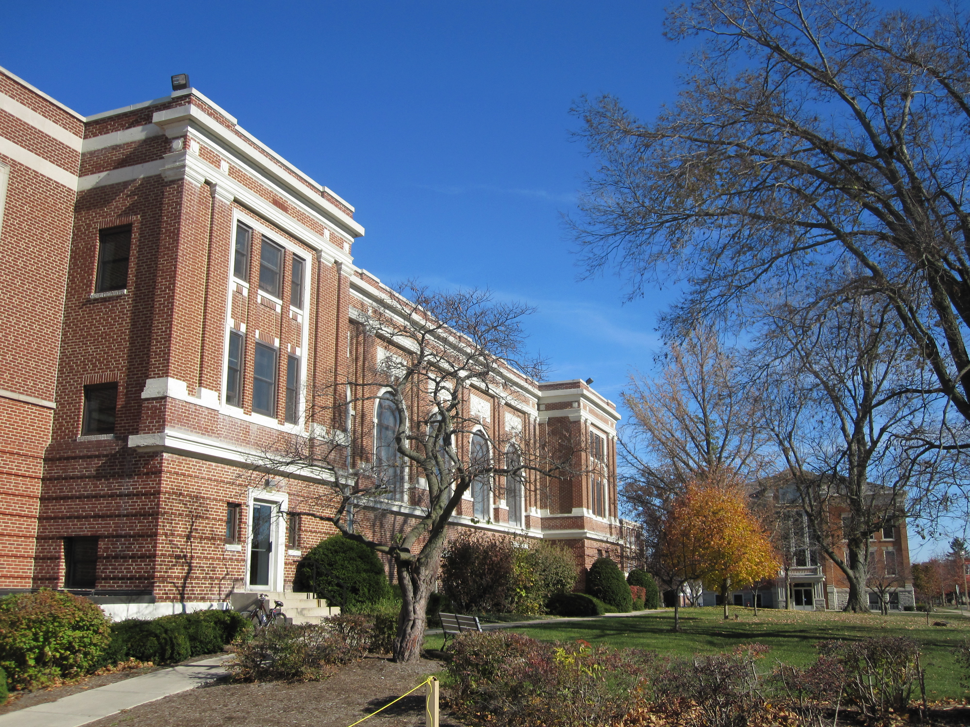 Photo of Ohio Northern University's Music Department